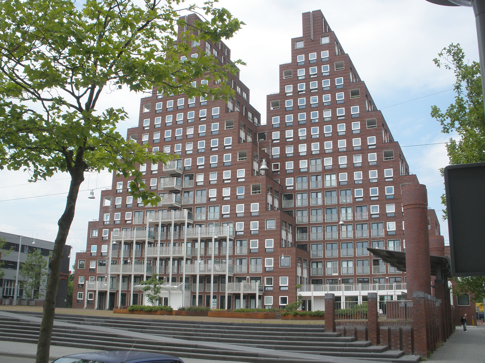 The 2007 apartment building De Piramides ("The Pyramids") in Amsterdam.